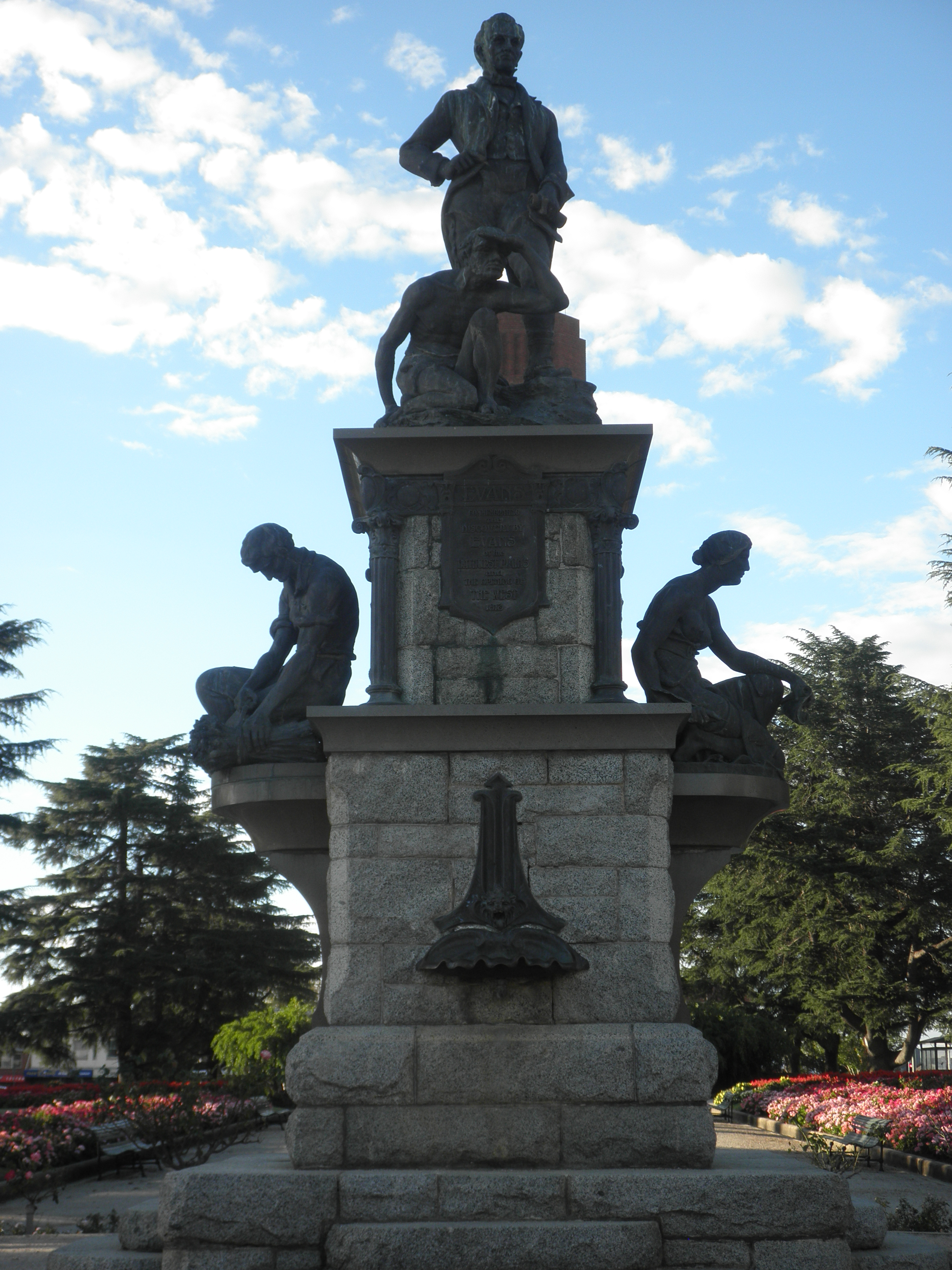 The Evans Memorial located in Kings Parade Park, Bathurst New South Wales, Australia. Completed 1913.